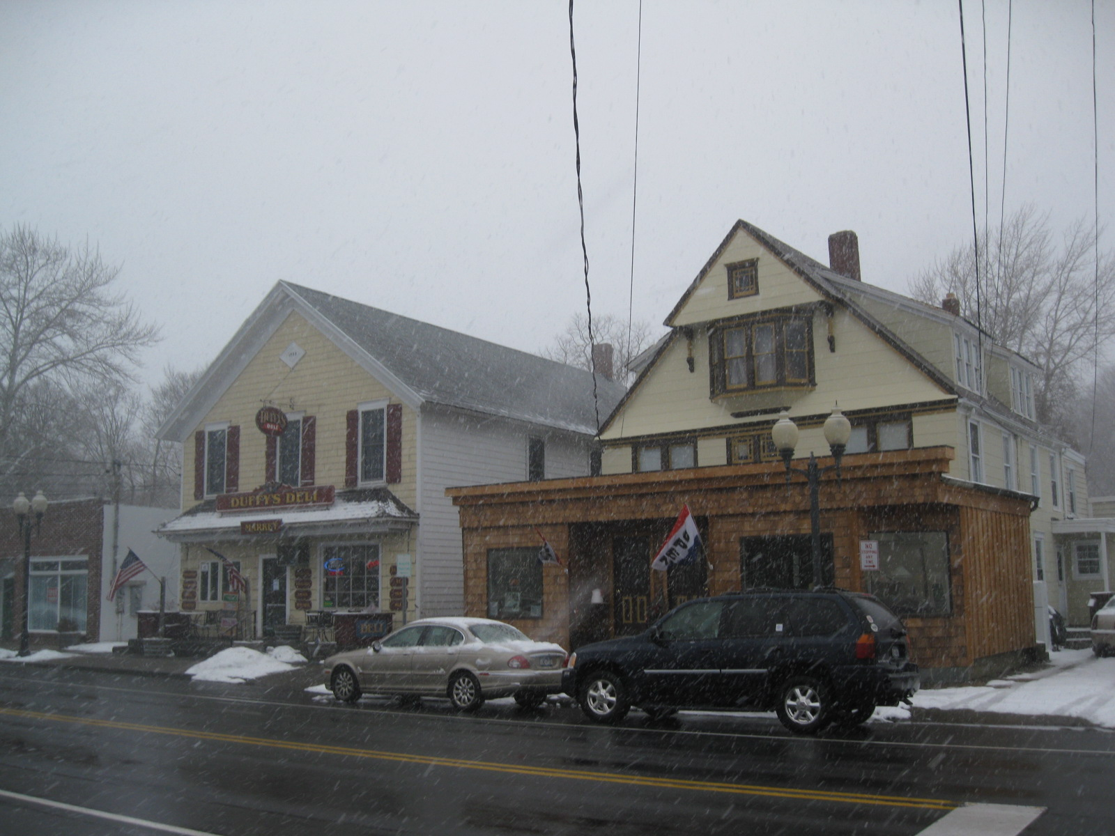 Jamesport, New York